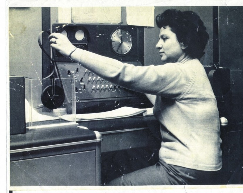 Cecilia Berdichevsky operating the Clementina computer.